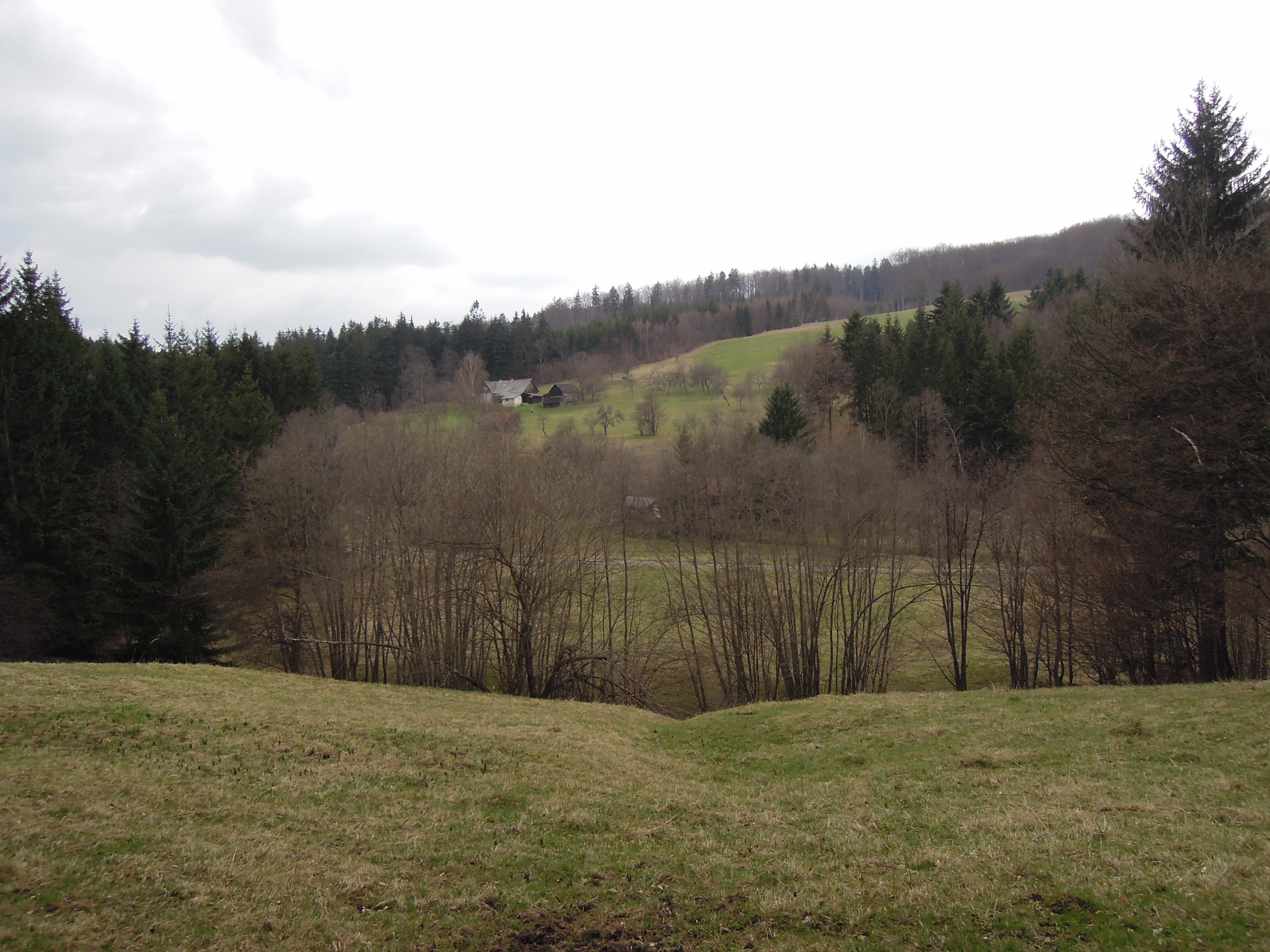 Pivovařiska natural monument in Hošťálková, Vsetín District, Zlín Region, Czech Republic